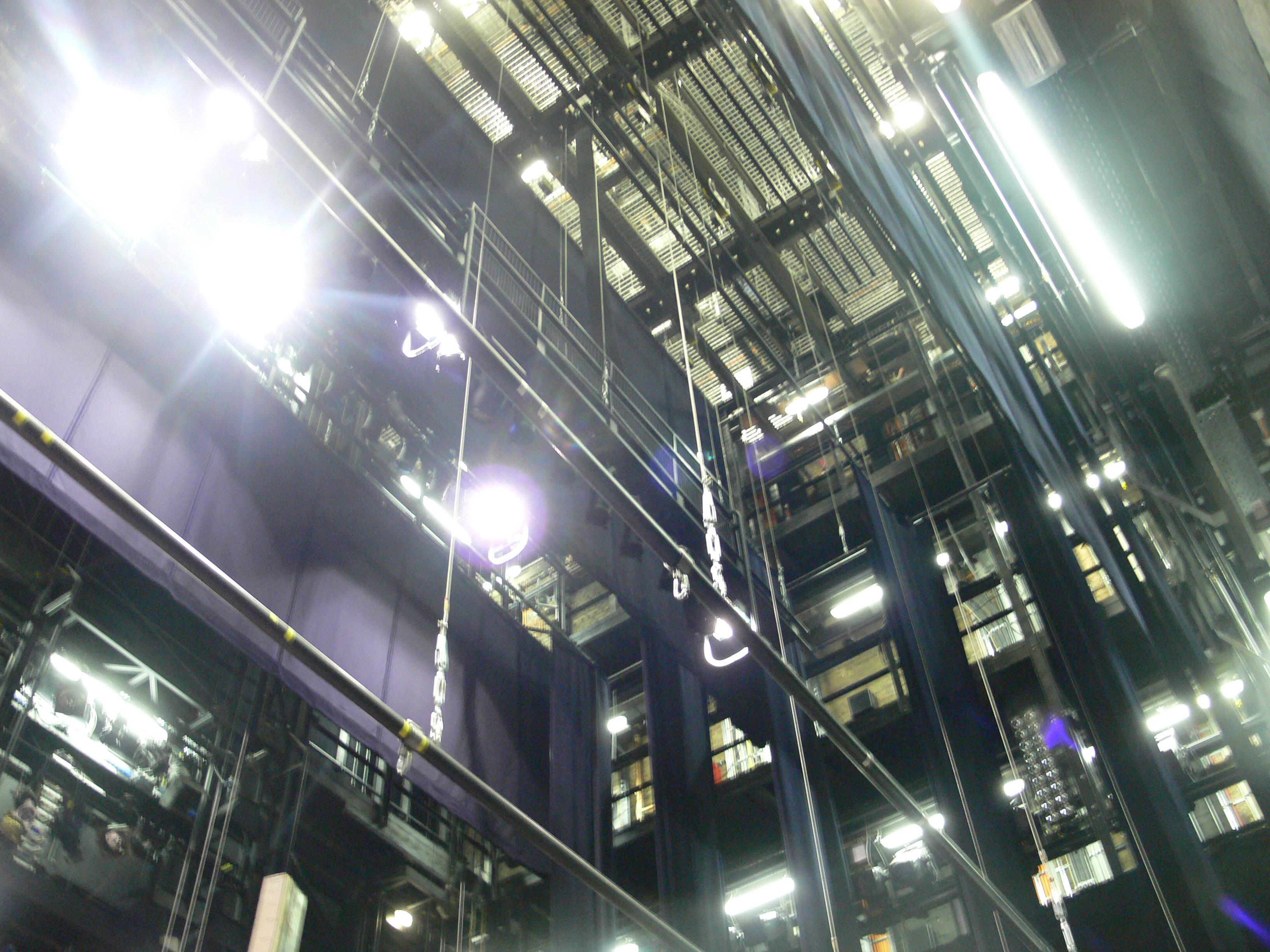 The flies, seen from the stage, of Theater Bielefeld, Germany